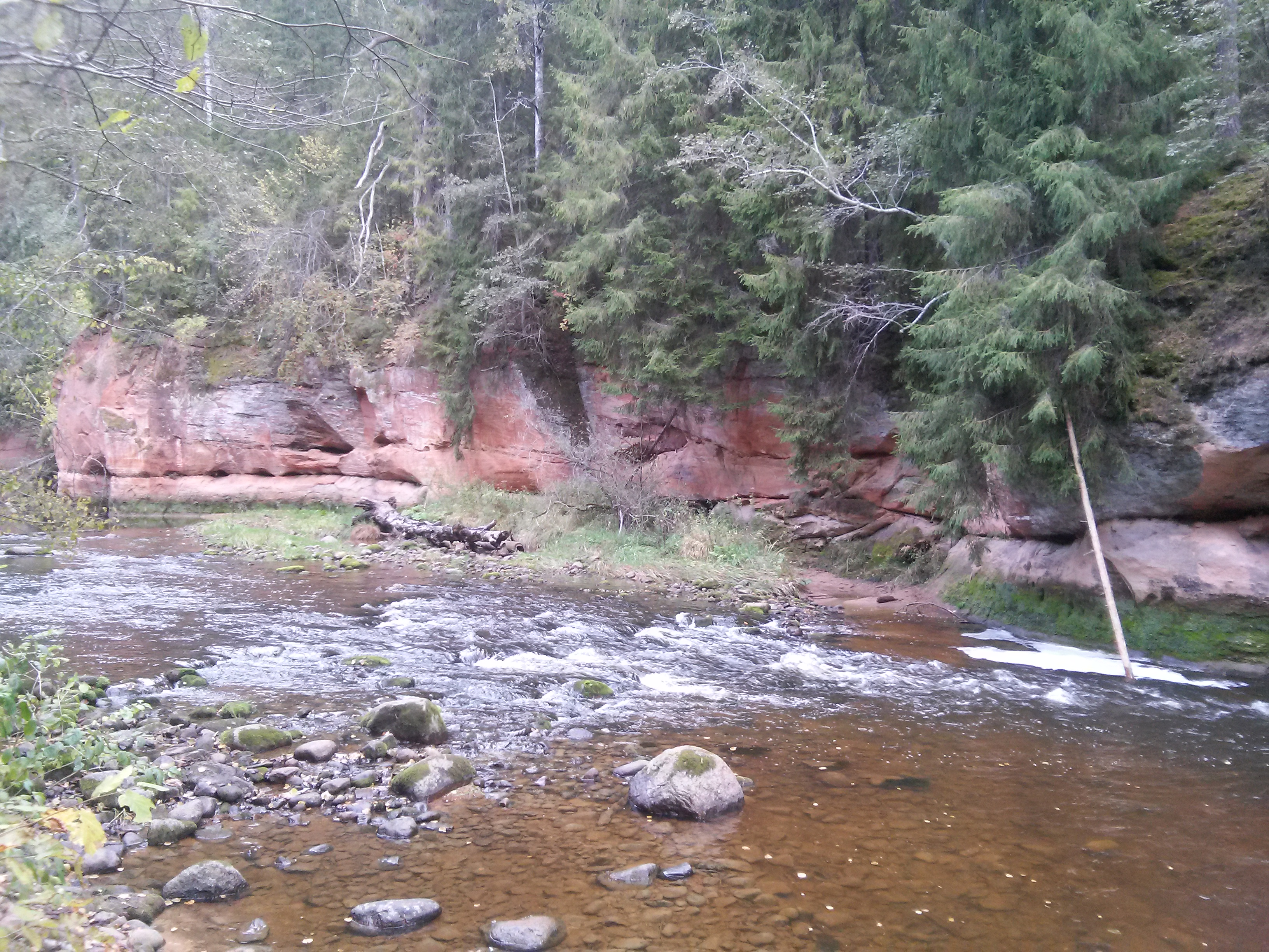 Vanagu rock next to Amata